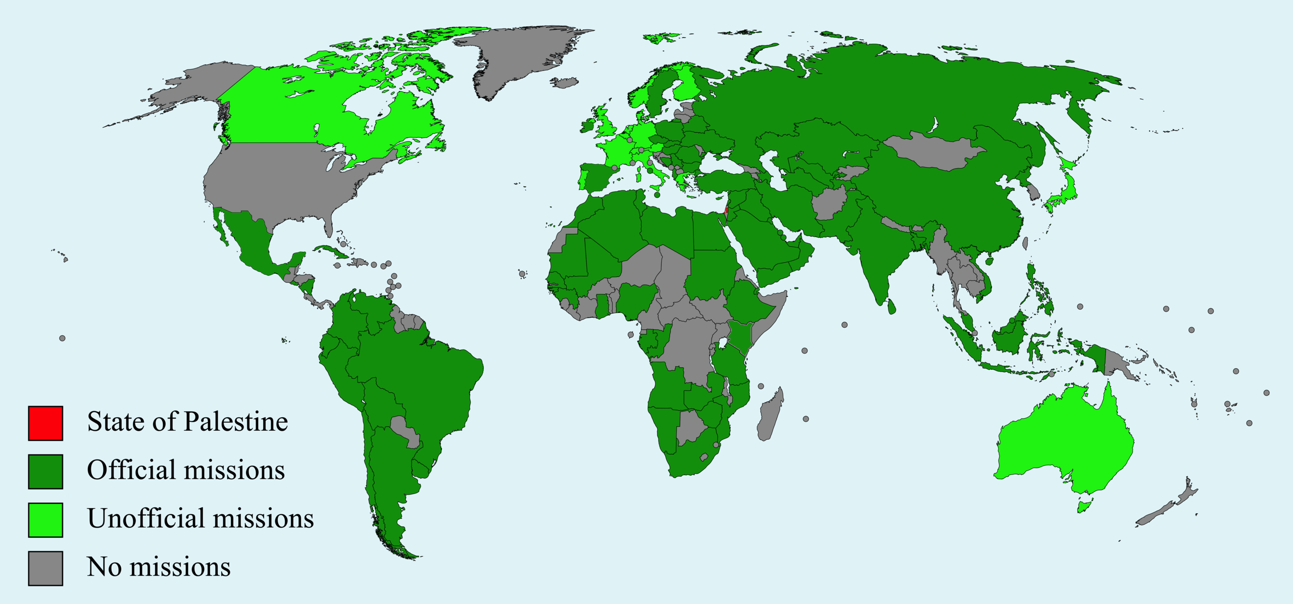 Map showing the diplomatic missions of the State of Palestine